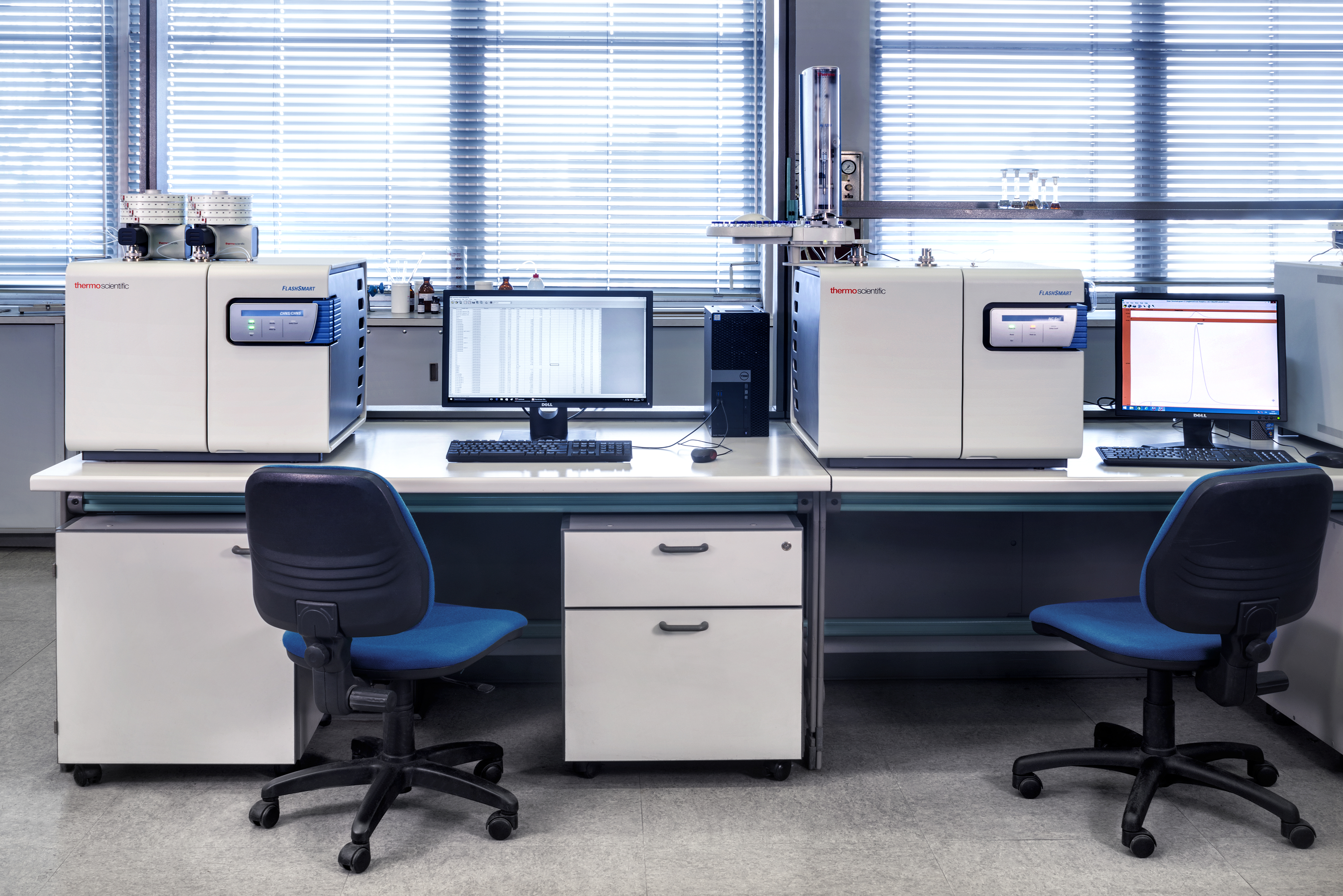 Elemental Analysis Laboratory